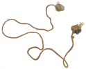 Suruchin